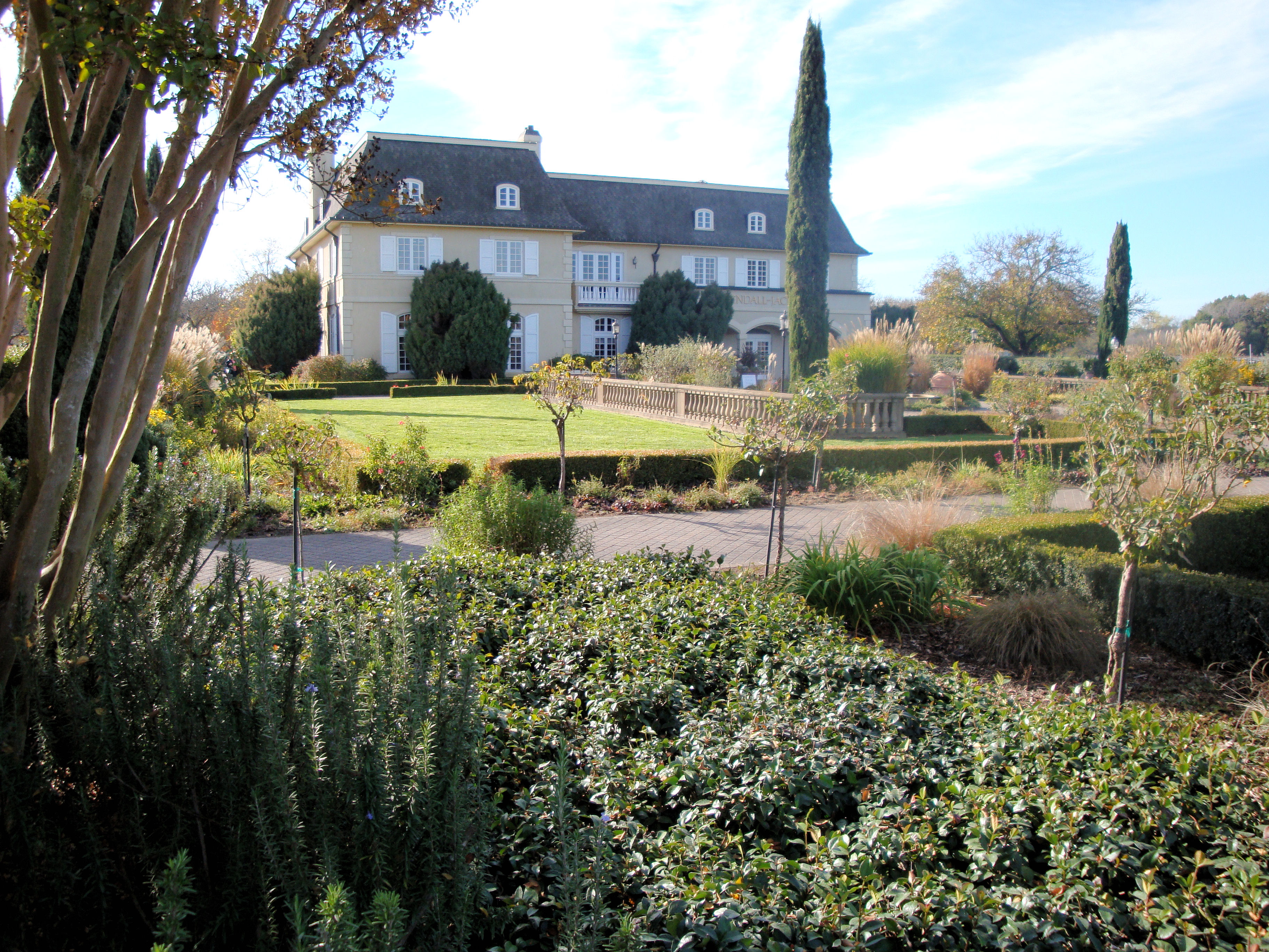 California wine producer Kendall Jackson tasting facility in Sonoma County